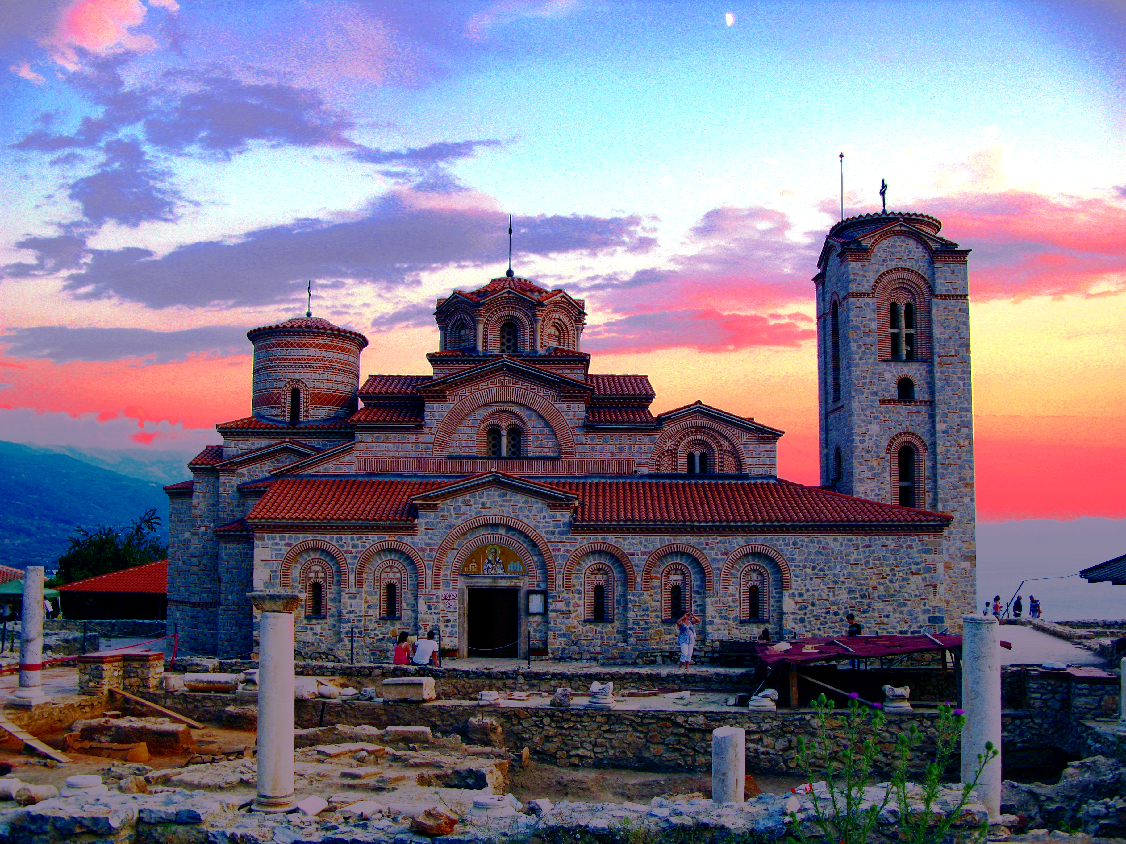 St. Climent monastery, Ohrid, Macedonia.